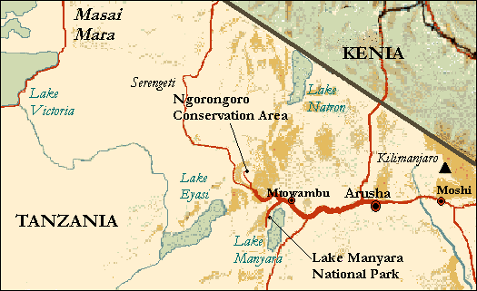 Map of Northern Tanzania National Parks - 1996